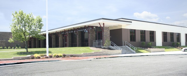 Outside view of the Academic and Administrative Center, Montini Catholic High School, Lombard, IL